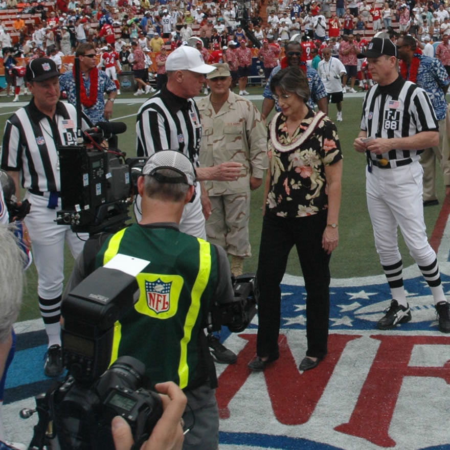 Hawaii Governor Linda Lingle, prepares to toss the coin to start the 40th annual National Football League (NFL) Pro Bowl game